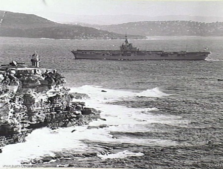 Australian War Memorial image 301441. HMAS Sydney arriving at her namesake city for the first time on 28 May 1949.